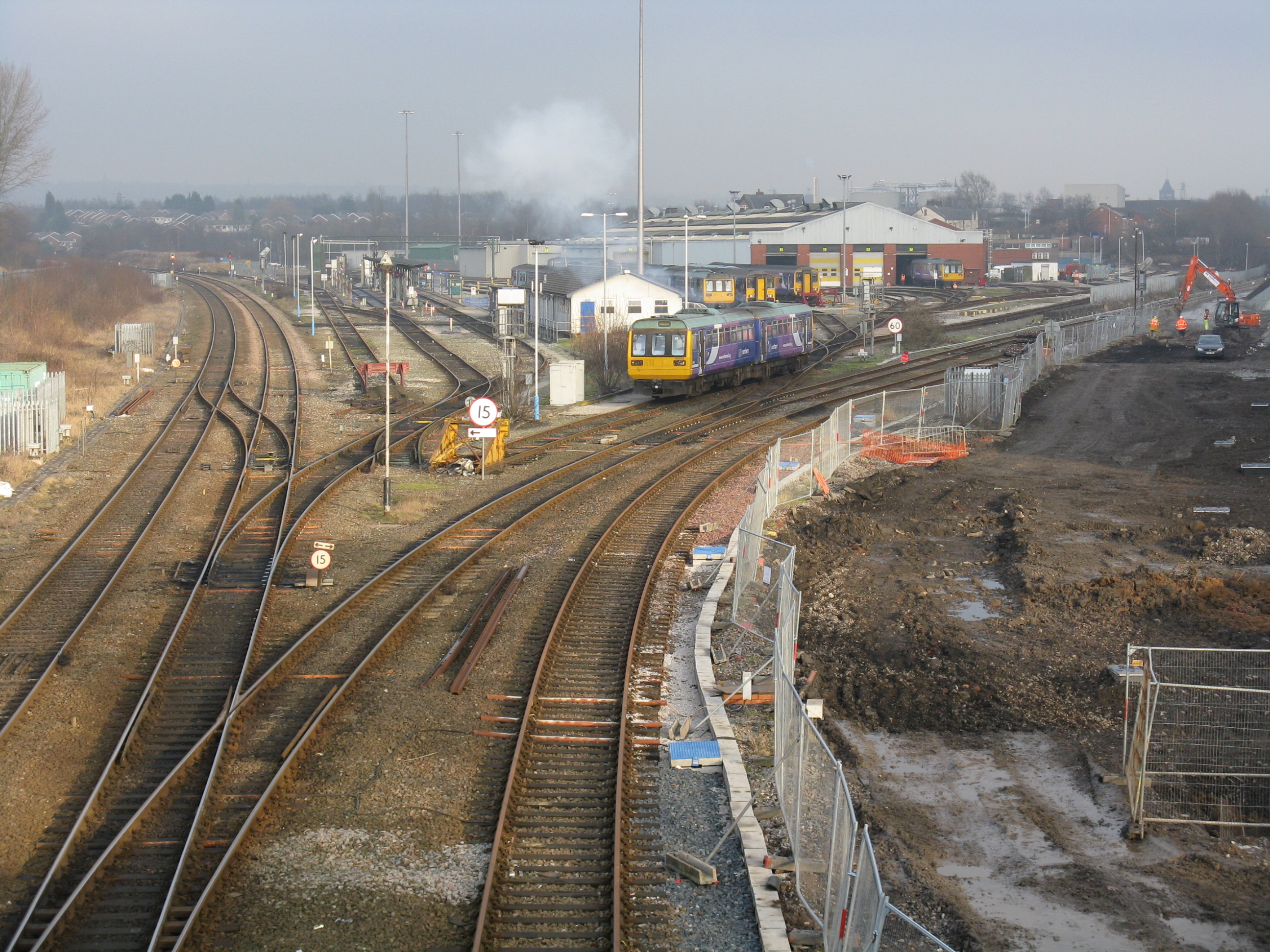 Newton Heath locomotive depot